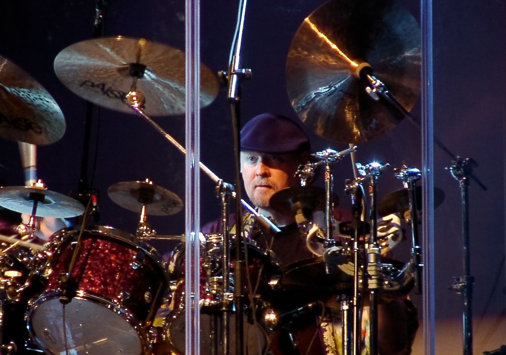 Photograph of drummer and percussionist Doane Perry of Jethro Tull performing a concert in Oakland, CA.